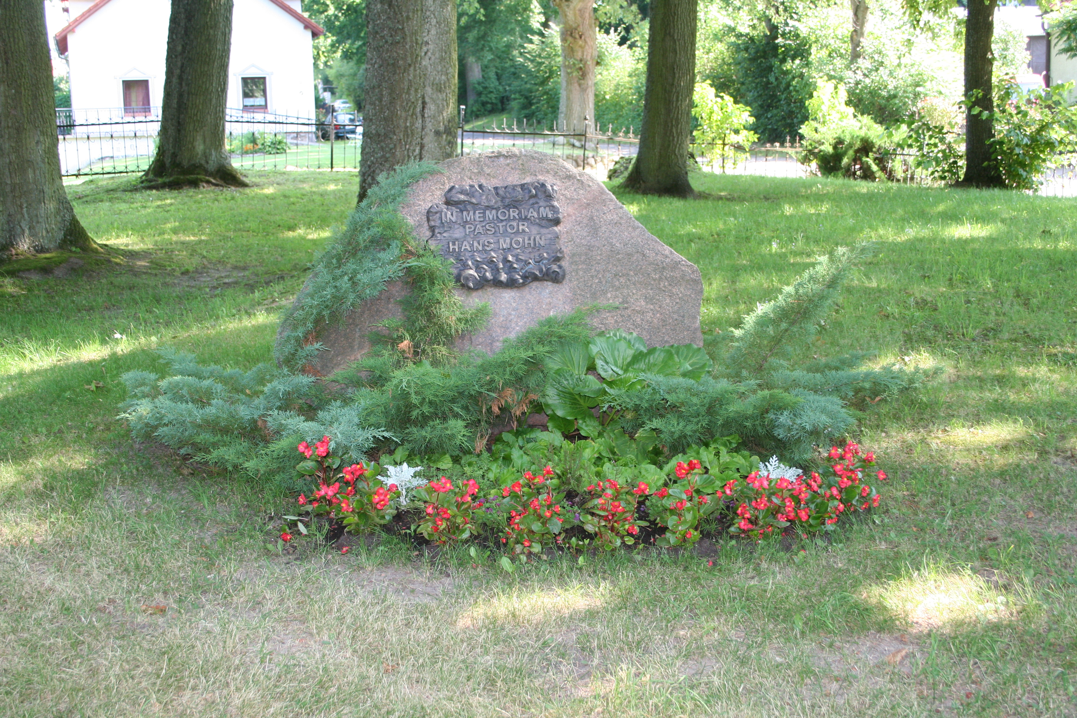 Lutheran Church in Sorkwity